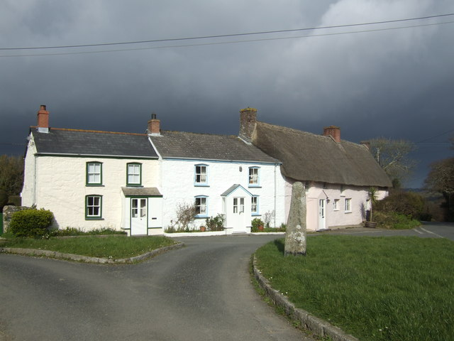 Mawgan Cross, near to Mawgan, Cornwall, Great Britain. Stone cottages overlooking the ancient cross of St Mawgan.